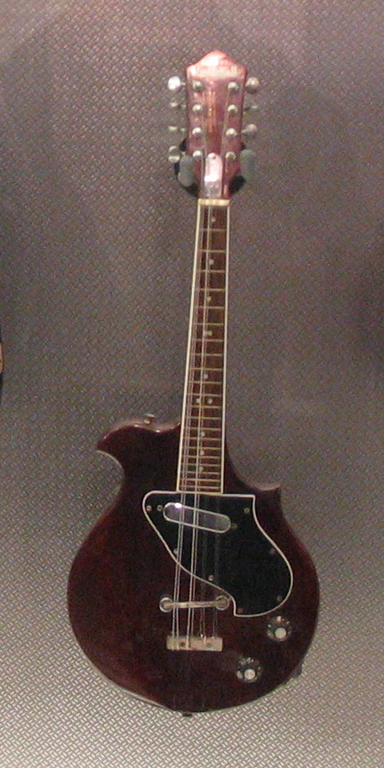 Rory's boys Eccleshall Electric Mandolin – [1]